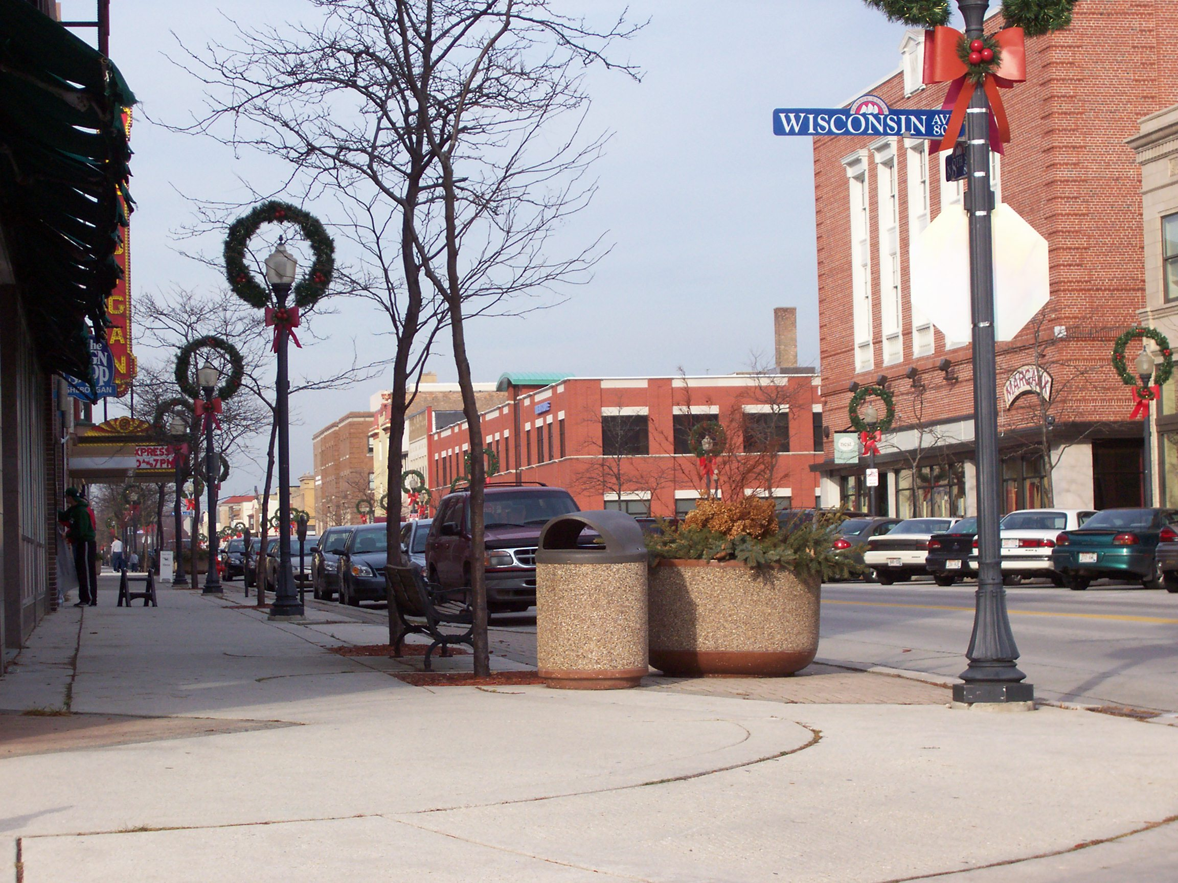 8th Street in downtown Sheboygan, Wisconsin, USA.